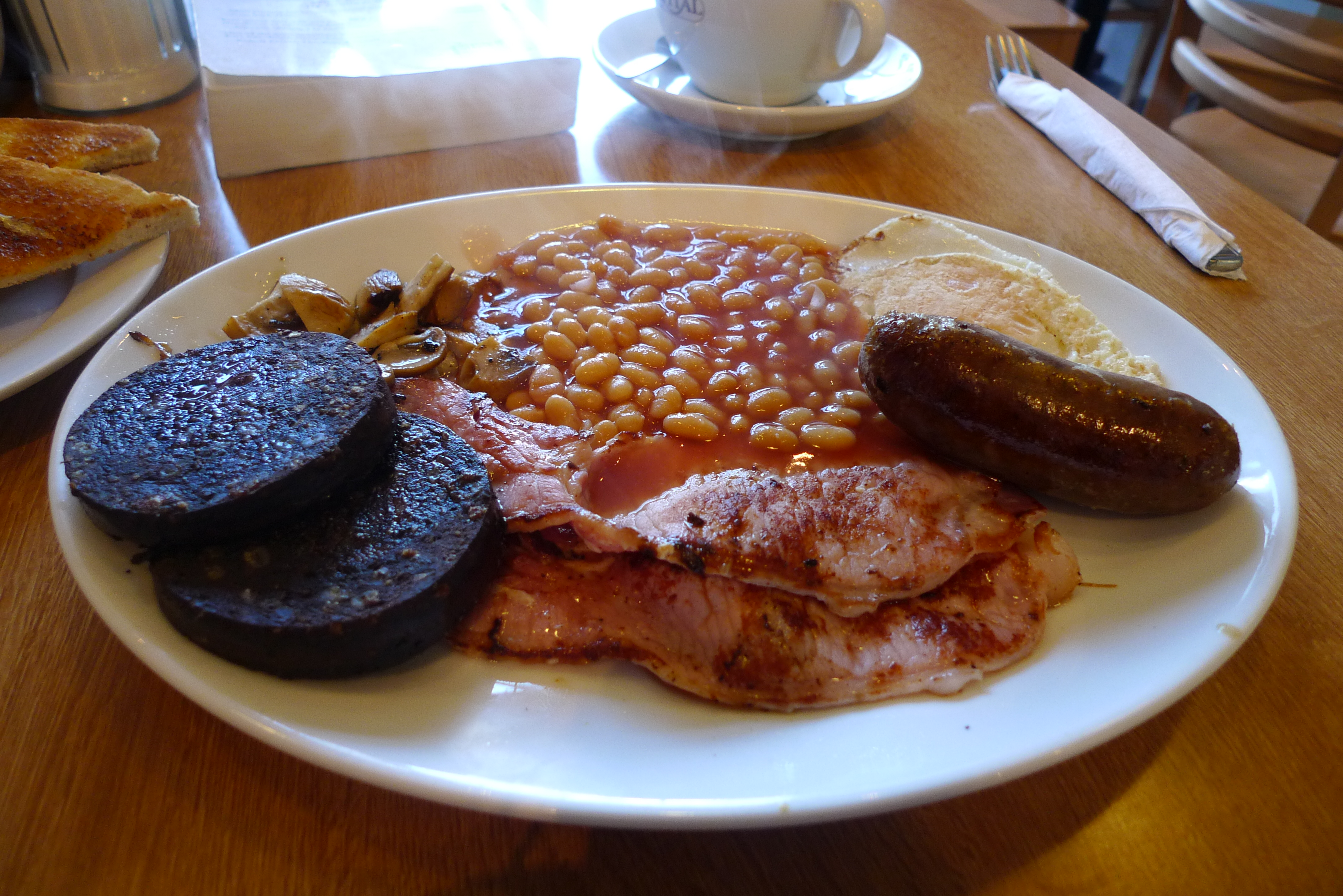 The full English with black pudding. Very tasty, can't complain. At John's, Berners Street.